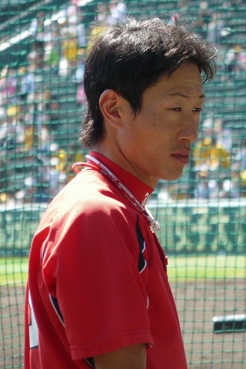 Masato Akamatsu, outfielder of the Hiroshima Toyo Carp, at Hanshin Koshien Stadium.